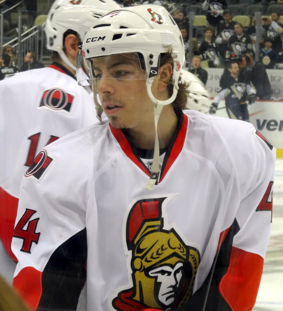 Ottawa Senators forward Jean-Gabriel Pageau during game two of their second round series against the Pittsburgh Penguins, May 17, 2013 at Consol Energy Center in Pittsburgh, PA.